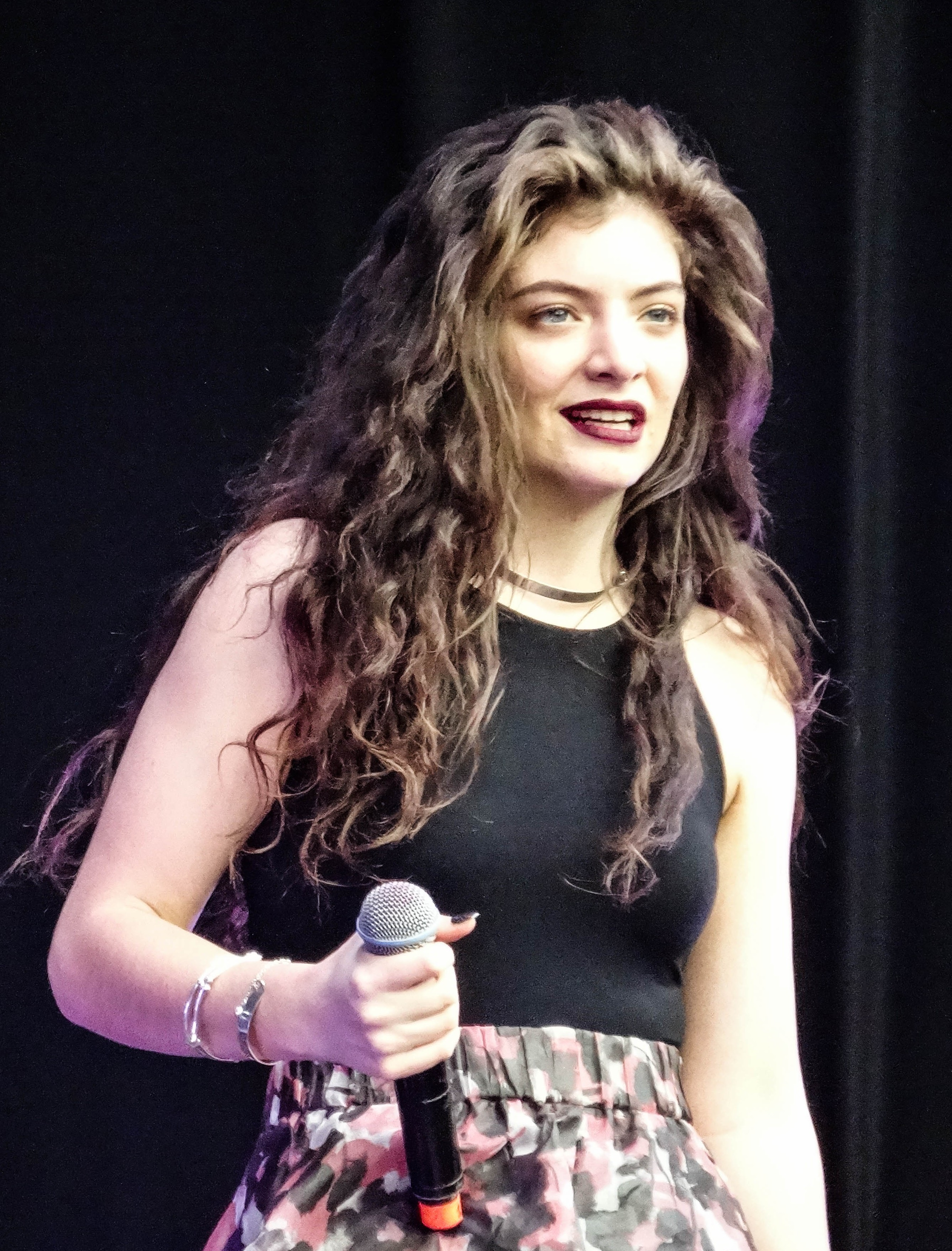 Lorde performing at Lollapalooza Chile in March 2014